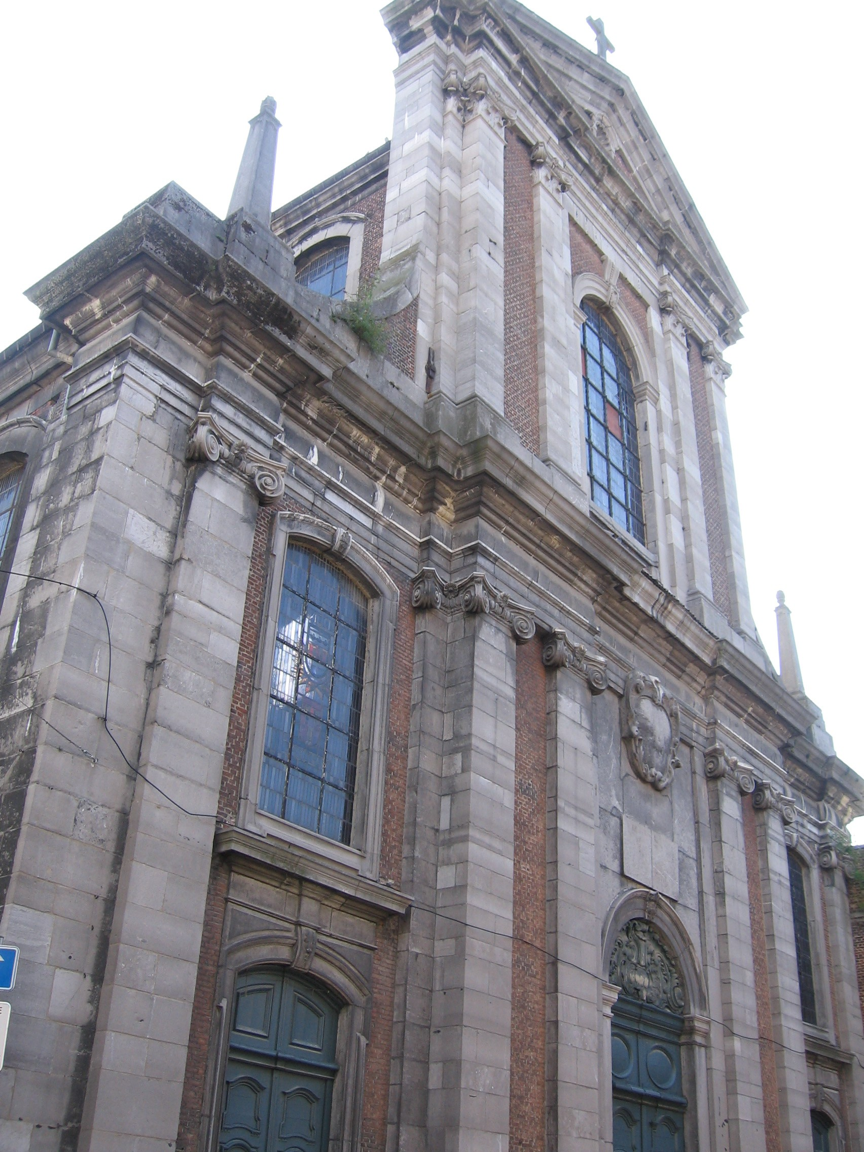 The church of Notre-Dame d'Harscamp, in the center of the town of Namur (Belgium), now in disuse.